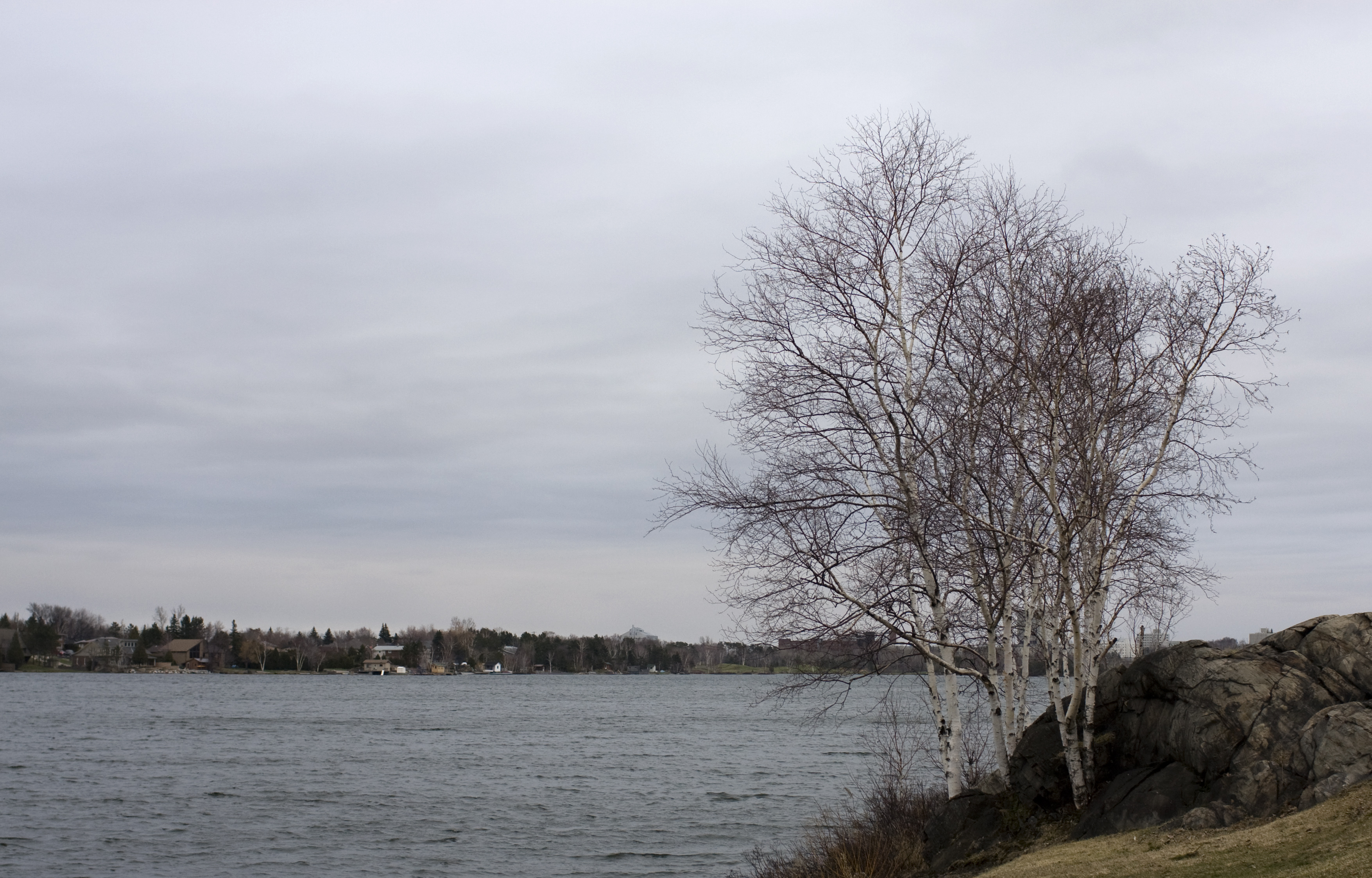 View of Lake Nepahwin from the beach near Paris St.